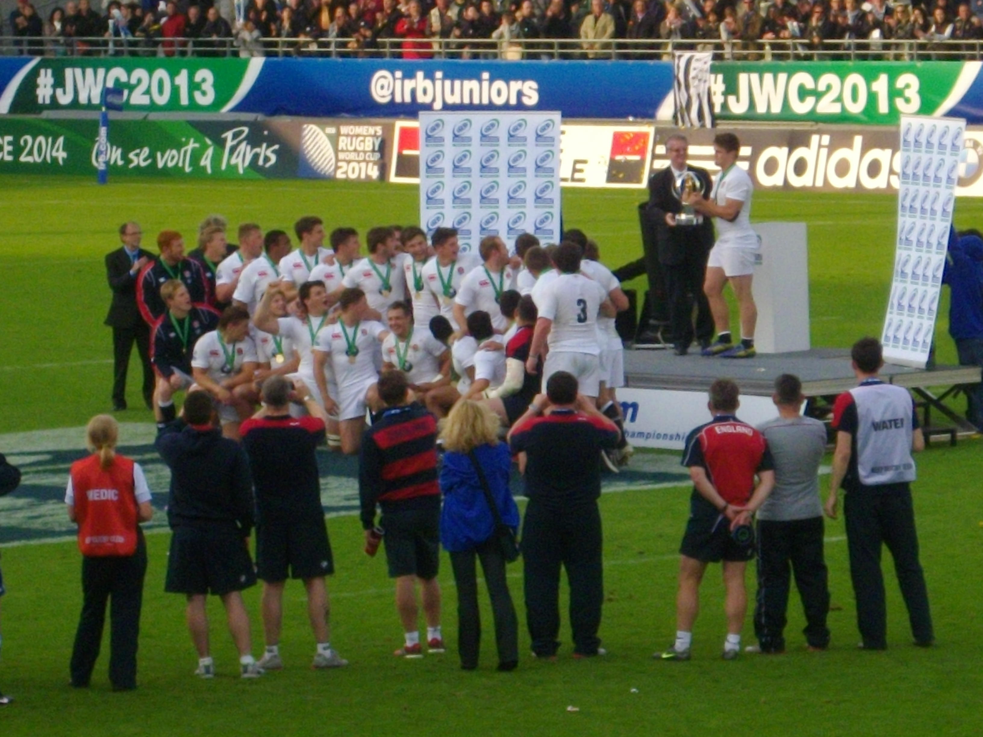 Final of the en:2013 IRB Junior World Championship, between England and Wales teams, in Rabine stadium of Vannes (Morbihan, France), 23 June 2013. The English team receiving the trophy.